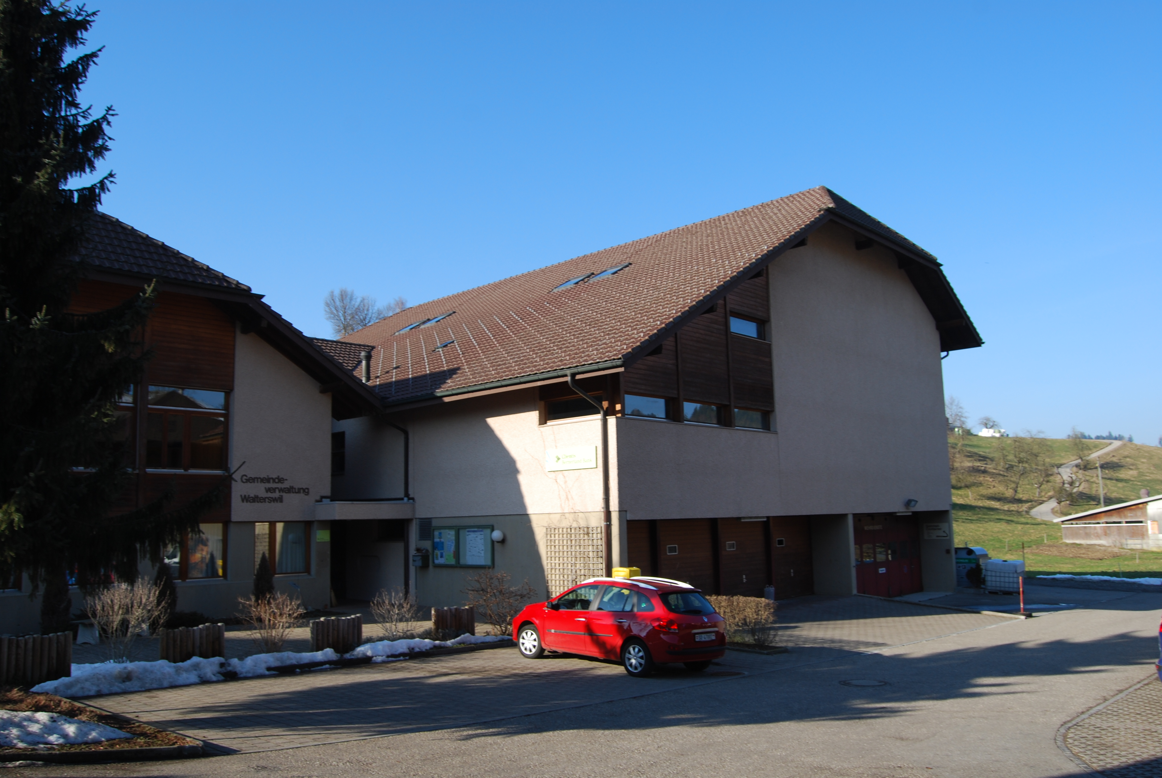 Walterswil, canton of Bern, SwitzerlandEsperanto: Walterswil, Kantono Berno, Svislando